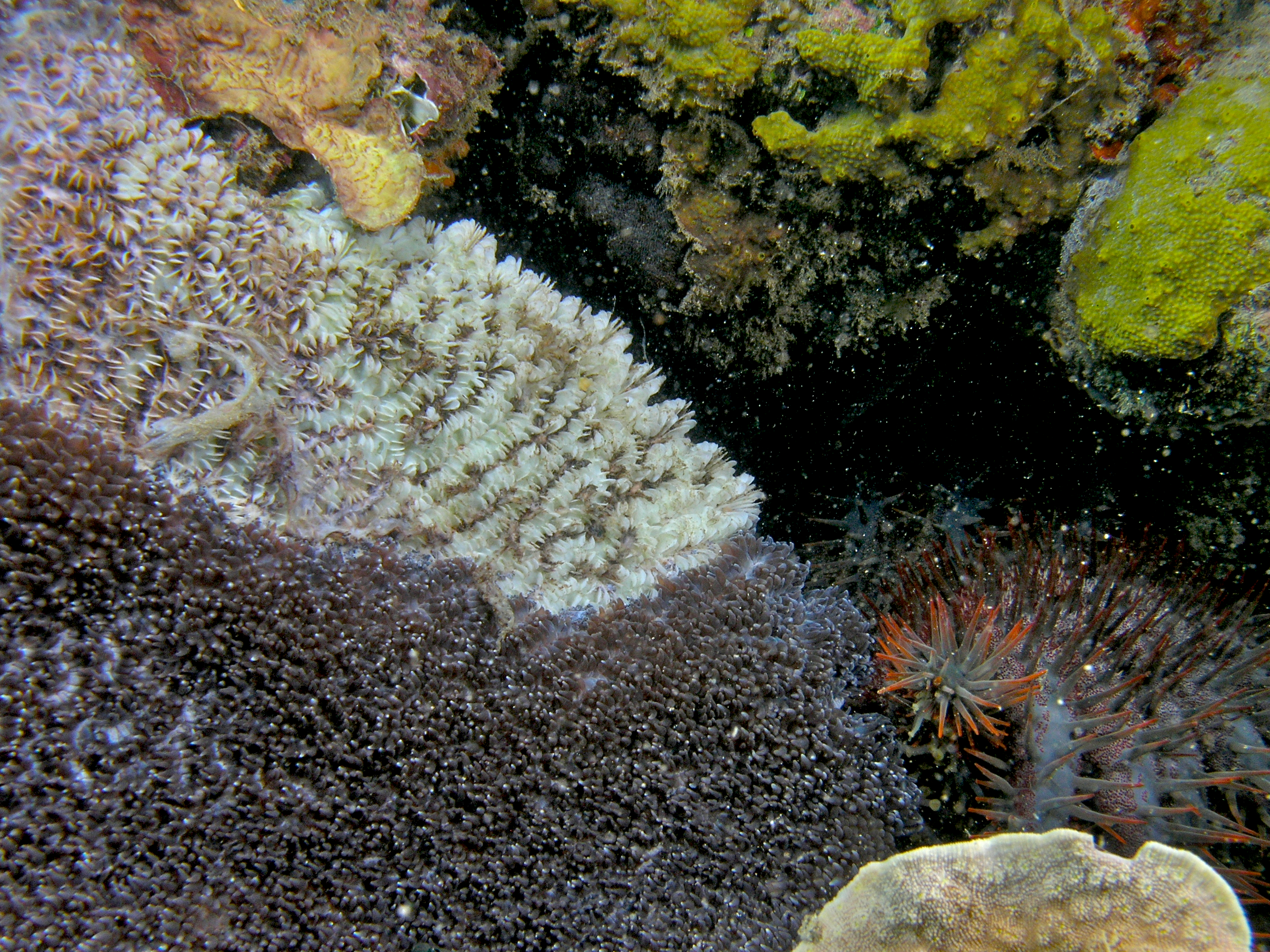 Acanthaster planci (Crown of thorns) starfish and hard coral damage after feeding